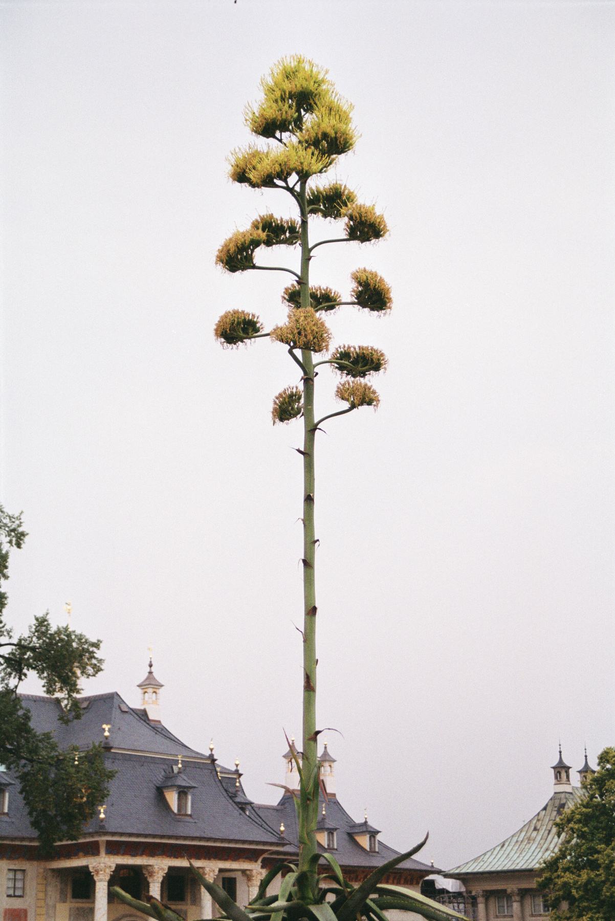 self taken picture, taken in late summer or autumn 1999 picture taken in the park of castle Pillnitz near Dresden, Germany it shows some kind of Agave, not sure which one de: selbst fotografierte Agave im Schloßpark von Pillnitz möglicherweise Agave americana oder deserti